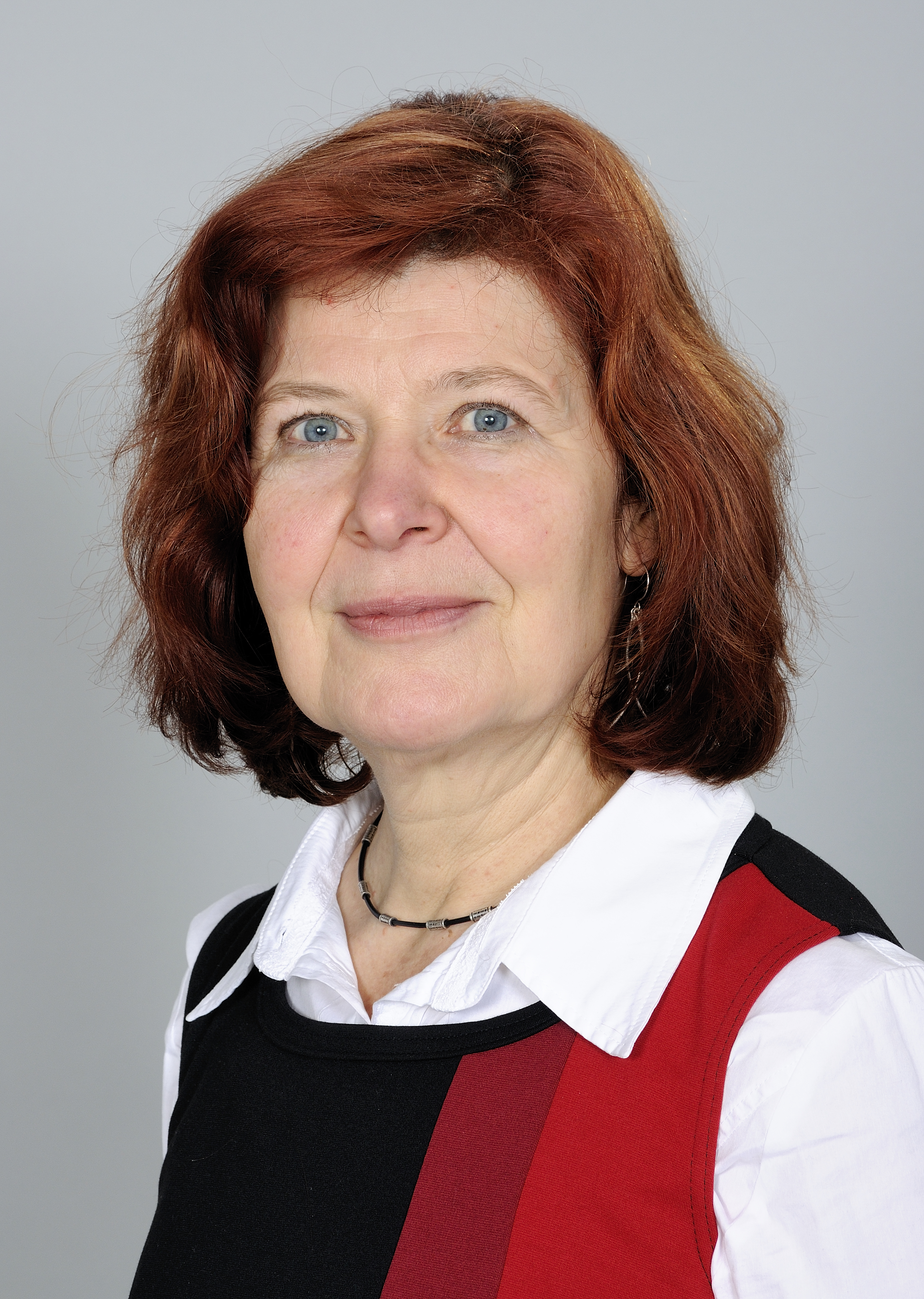 Andrea Roth, Saxon politician (Die Linke) and member of the Landtag of the Free State of Saxony (as of 2013).